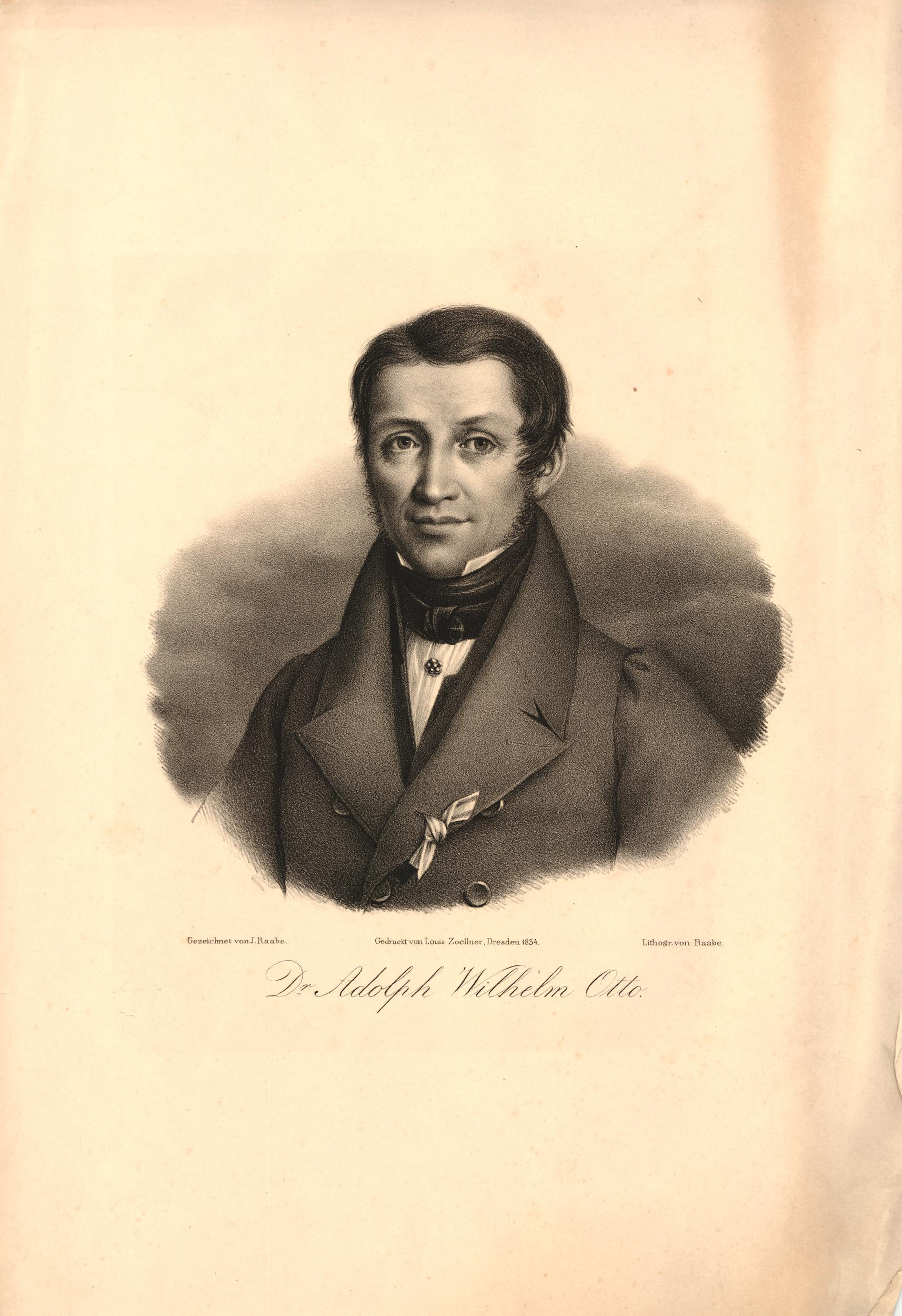 Portrait of the anatomist Dr Adolph Wilhelm Otto; half-length; frontal view. 1834 Lithograph